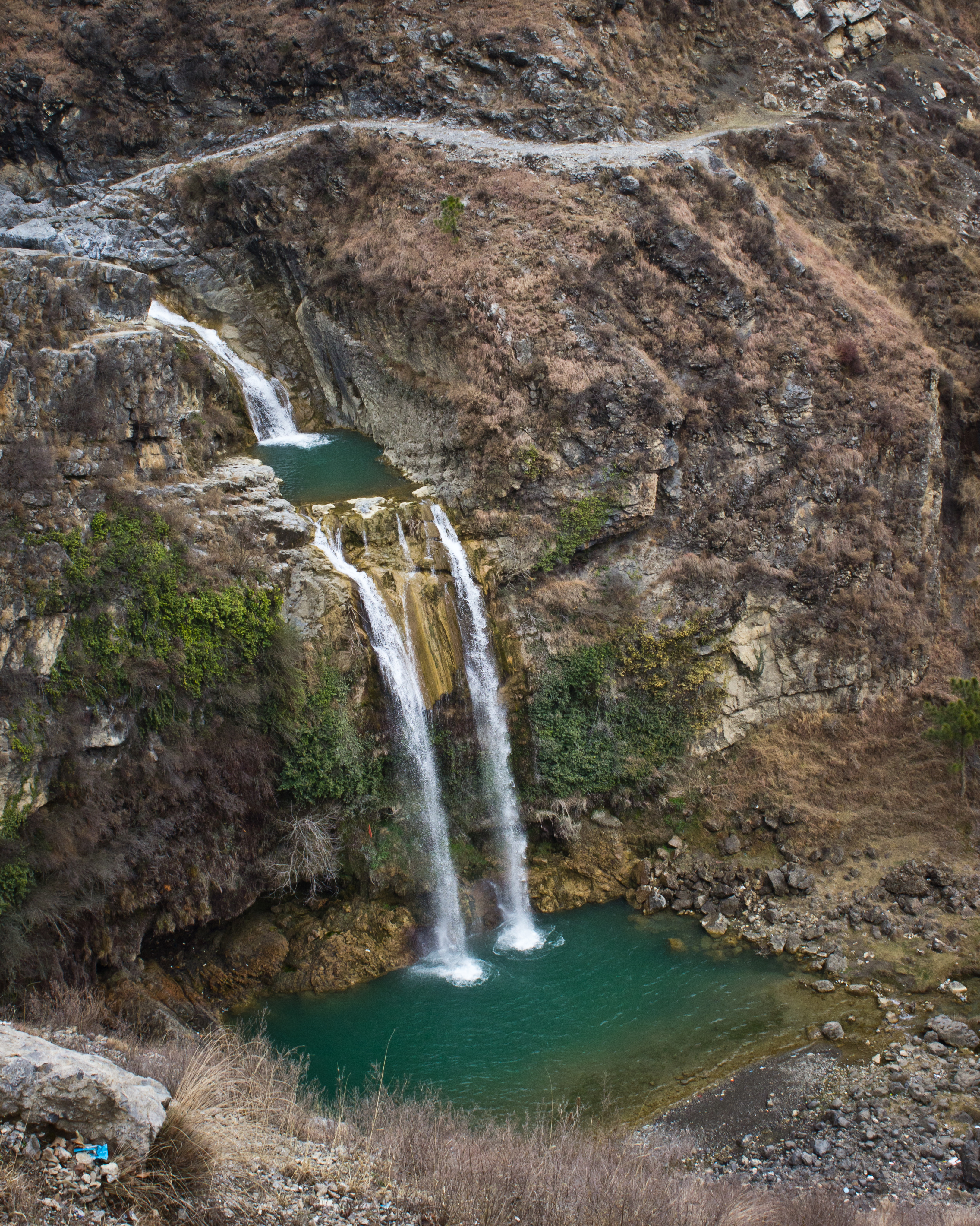 A beautiful, jade, three step waterfall. located in Sajikot,Havailian